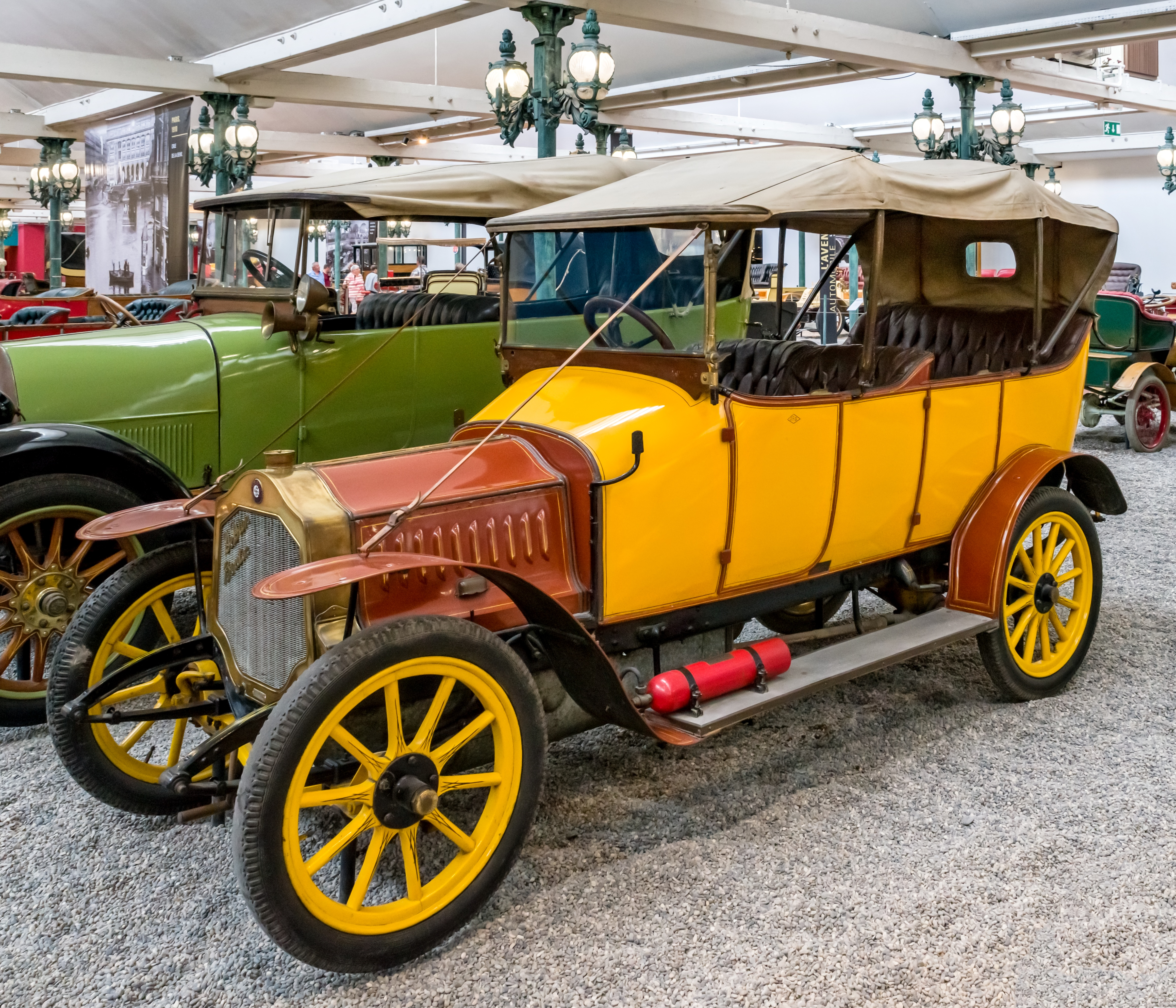 pictures from the Cité de l’Automobile – Musée National – Collection Schlump in Mulhouse, France ptictures from the 10. may 2018